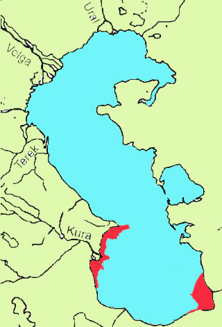 The rang of Benthophilus ctenolepidus